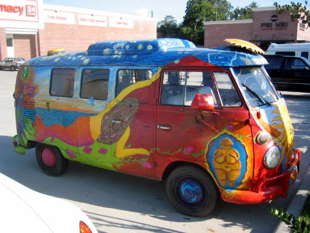 Be Your Own Goddess art bus (1967 VW Kombi)